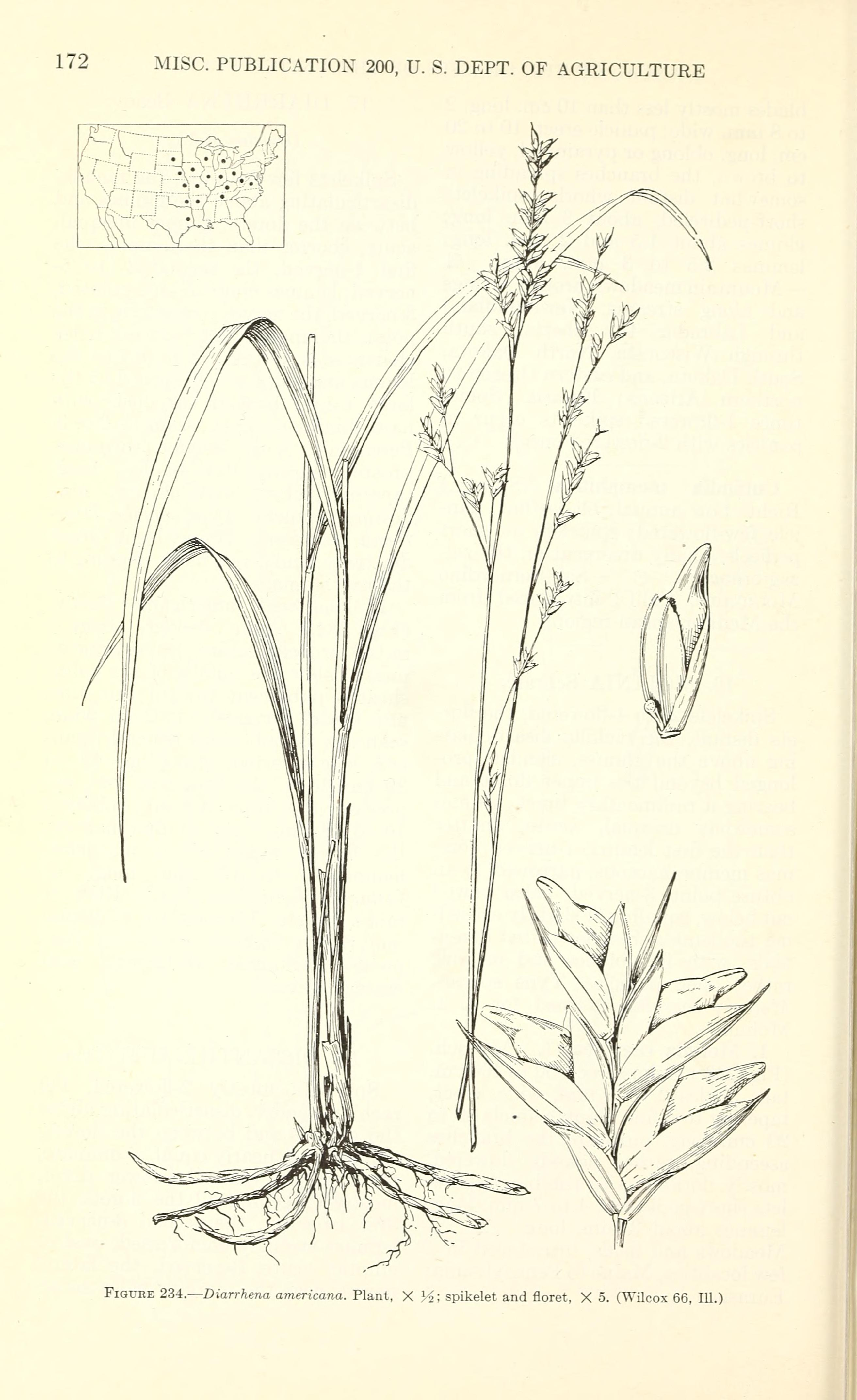 Manual of the grasses of the United States /